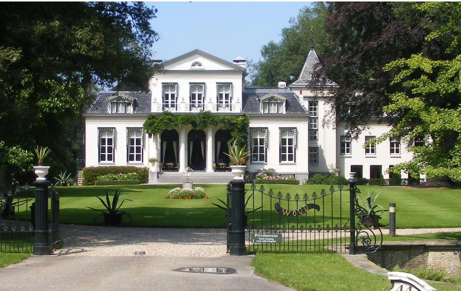 Landgoed Oranjewoud, Photo of the buitenplaats "Oranjewoud" on the former royal etate of the royal family.